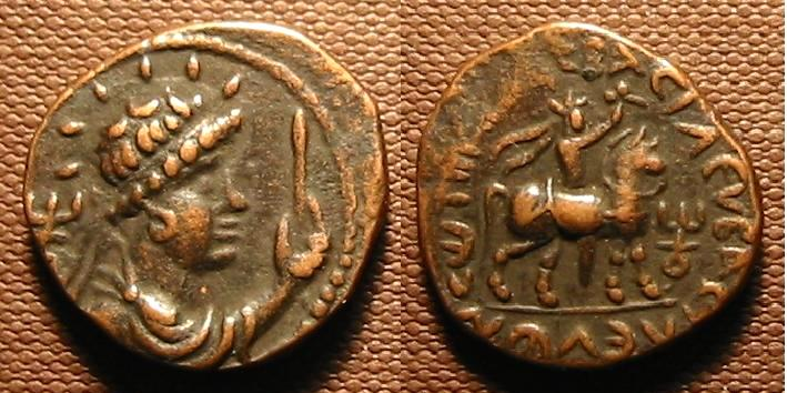 Bronze coin of Vima Takto, alias Soter Megas. c. 80 CE. Personal photograph, 2004.